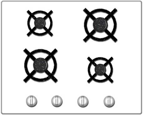 Old style kitchen stove